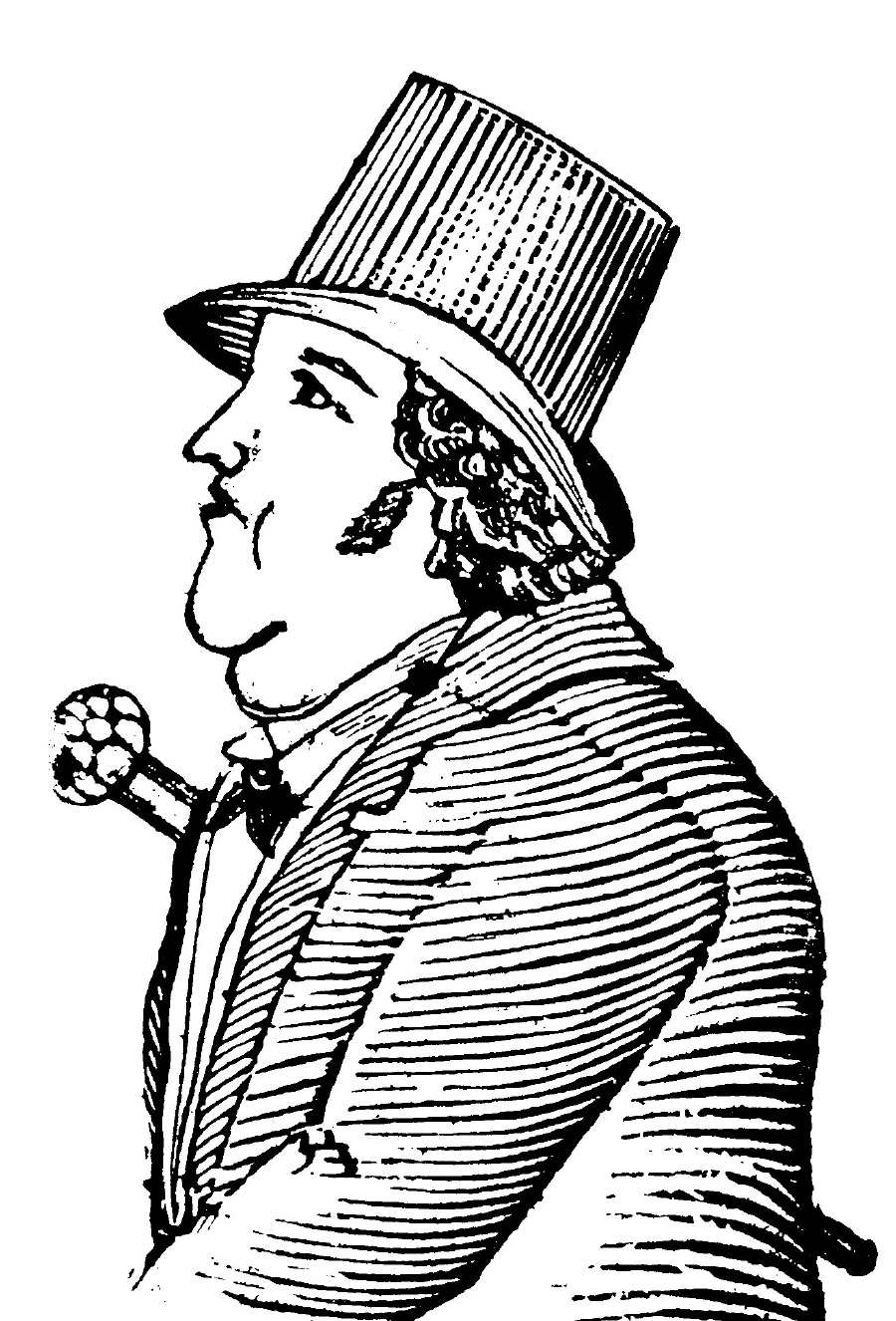 Link-drawing paint of Venezuelan writer and journalist Juan Vicente González (1810-1866).